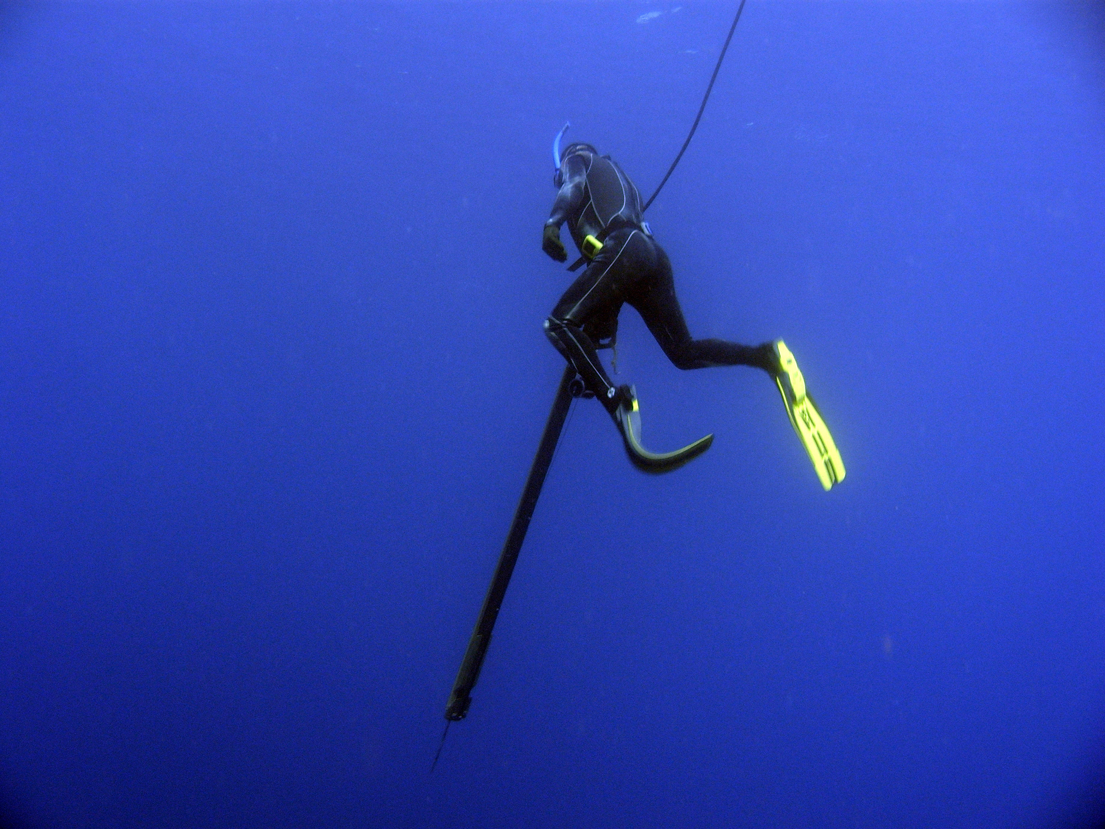 A photo of a spearfisherman hunting dogtooth-tuna off the coast of Okinoerabu, Ryu-Kyu Islands, Japan. Taken in July 2007 with a Sanyo Xacti HD2 camera and Epoque EHS-510H underwater housing. Photography by Yugyug 14:31, 24 October 2007 (UTC)